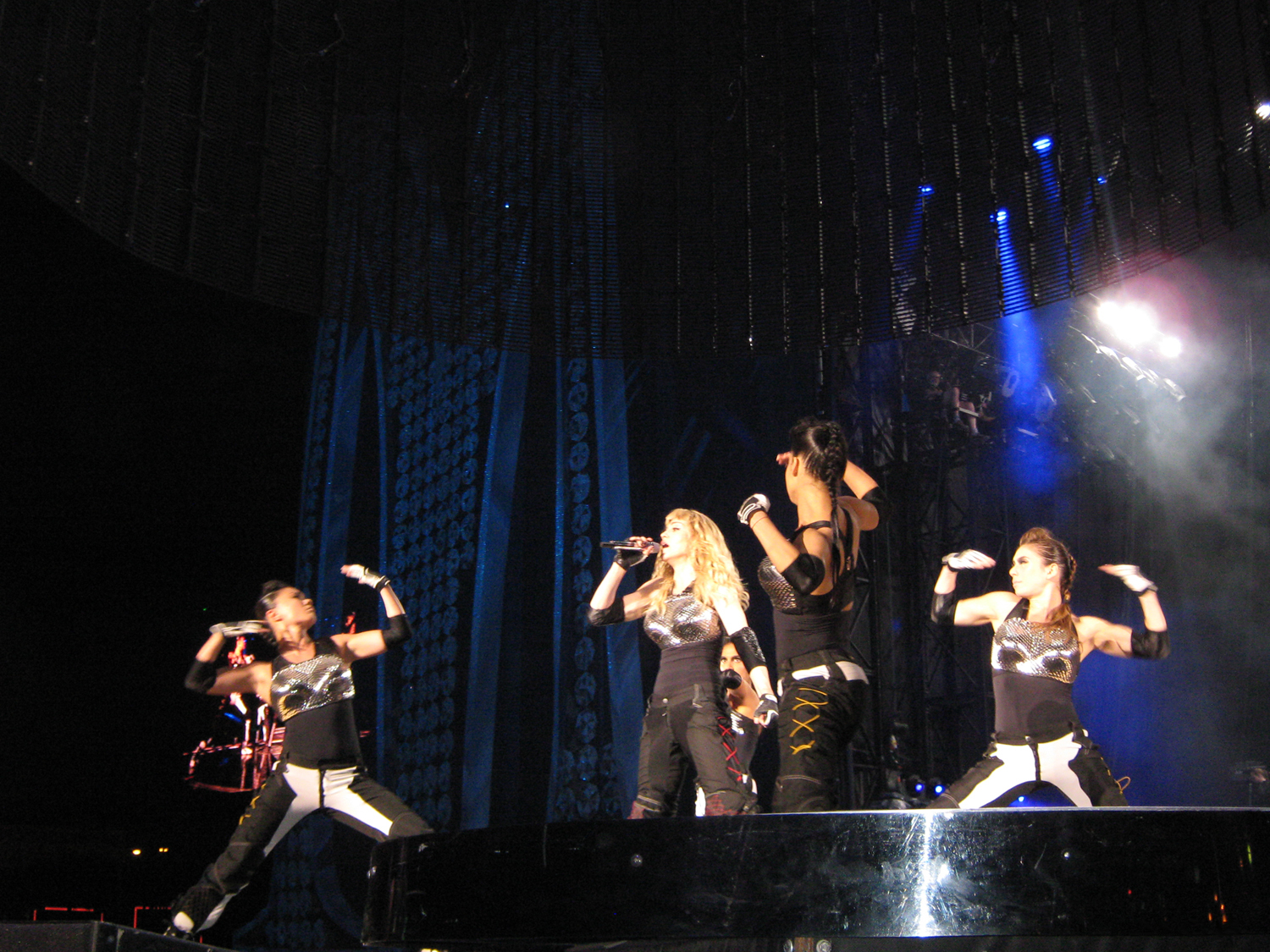 Her Madge-esty performing "Frozen" in Romania during the second leg of her Sticky & Sweet Tour.